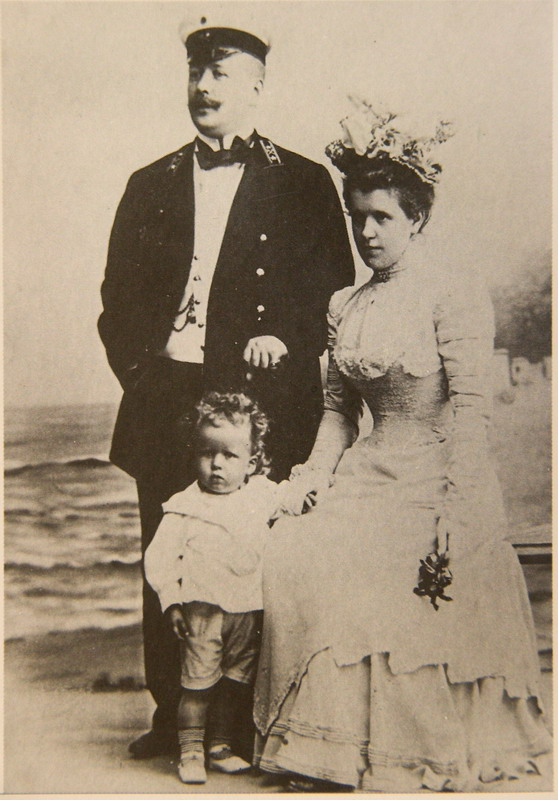 Mikhail Eisenstein with his wife and son Sergei Eisenstein. Mikhail was an Art Nouveau architect from Riga (Latvia) (1867-1920); Sergei was a sovietic film director (1898-1948). Original picture from 1900.